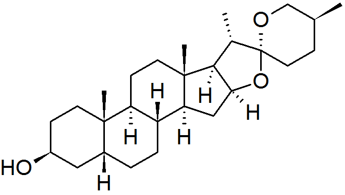 Molecular structure of sarsasapogenin.